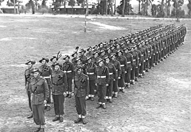 Soldiers from the 20th Pioneer Battalion on parade in Sydney, New South Wales, May 1945